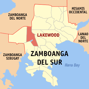 Map of Zamboanga del Sur showing the location of Lakewood